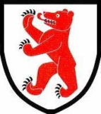 Blazon of Cham, Canton of Zug, SwitzerlandEsperanto: Blazono de Ĥamo, Kantono Zugo, Svislando